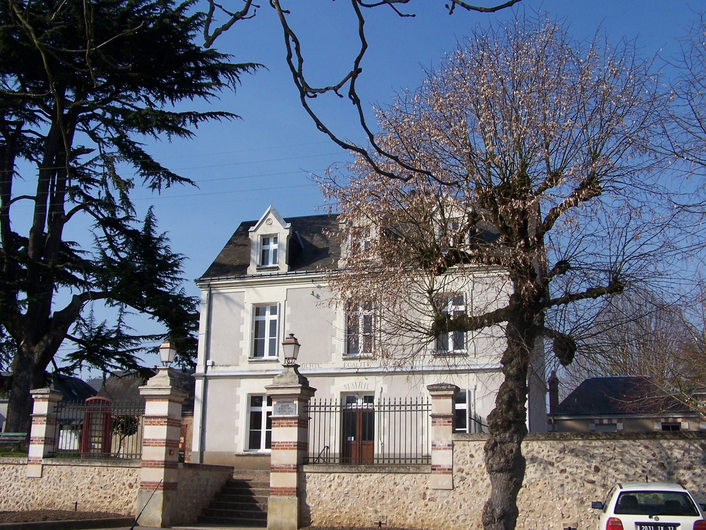 City hall of Villedômer (Indre-et-Loire, France)